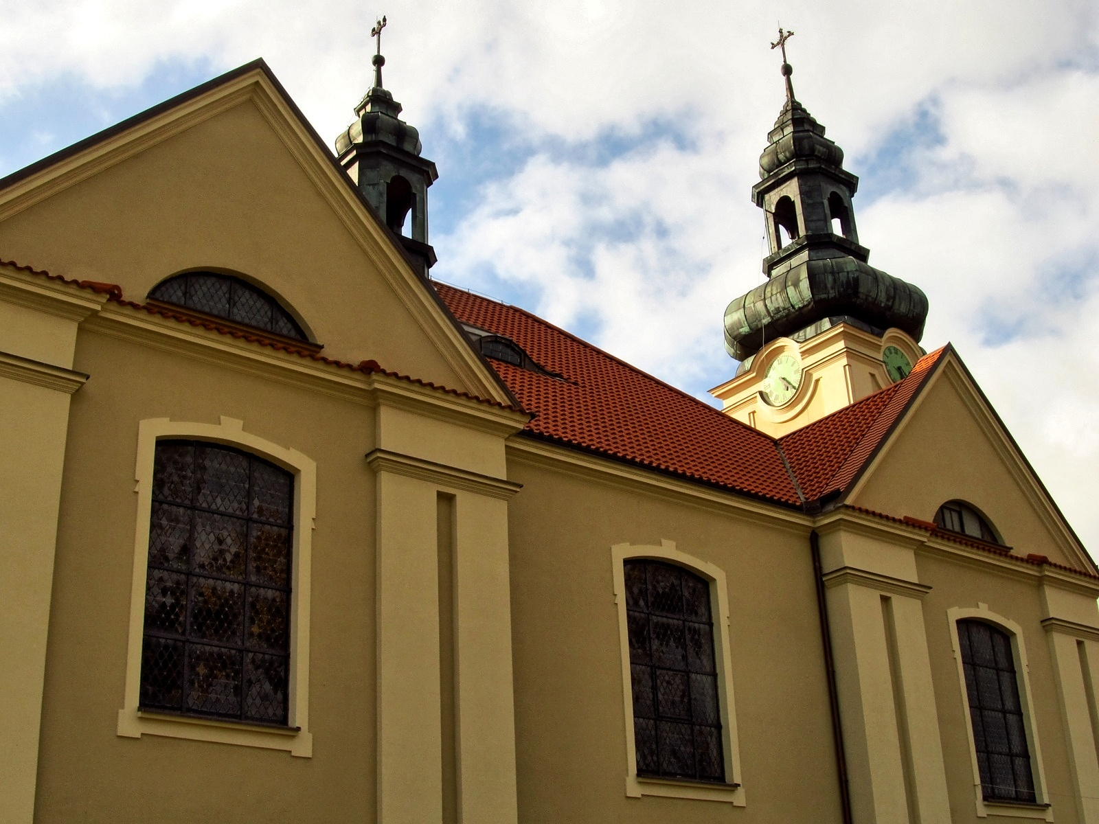 Church P.W. St. Elizabeth in Pinczynie